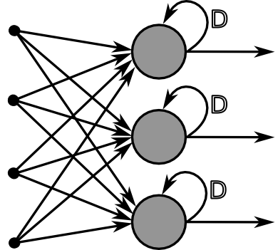 Diagram of a artificial neural network with one layer and recurrent connections (D for time delay).